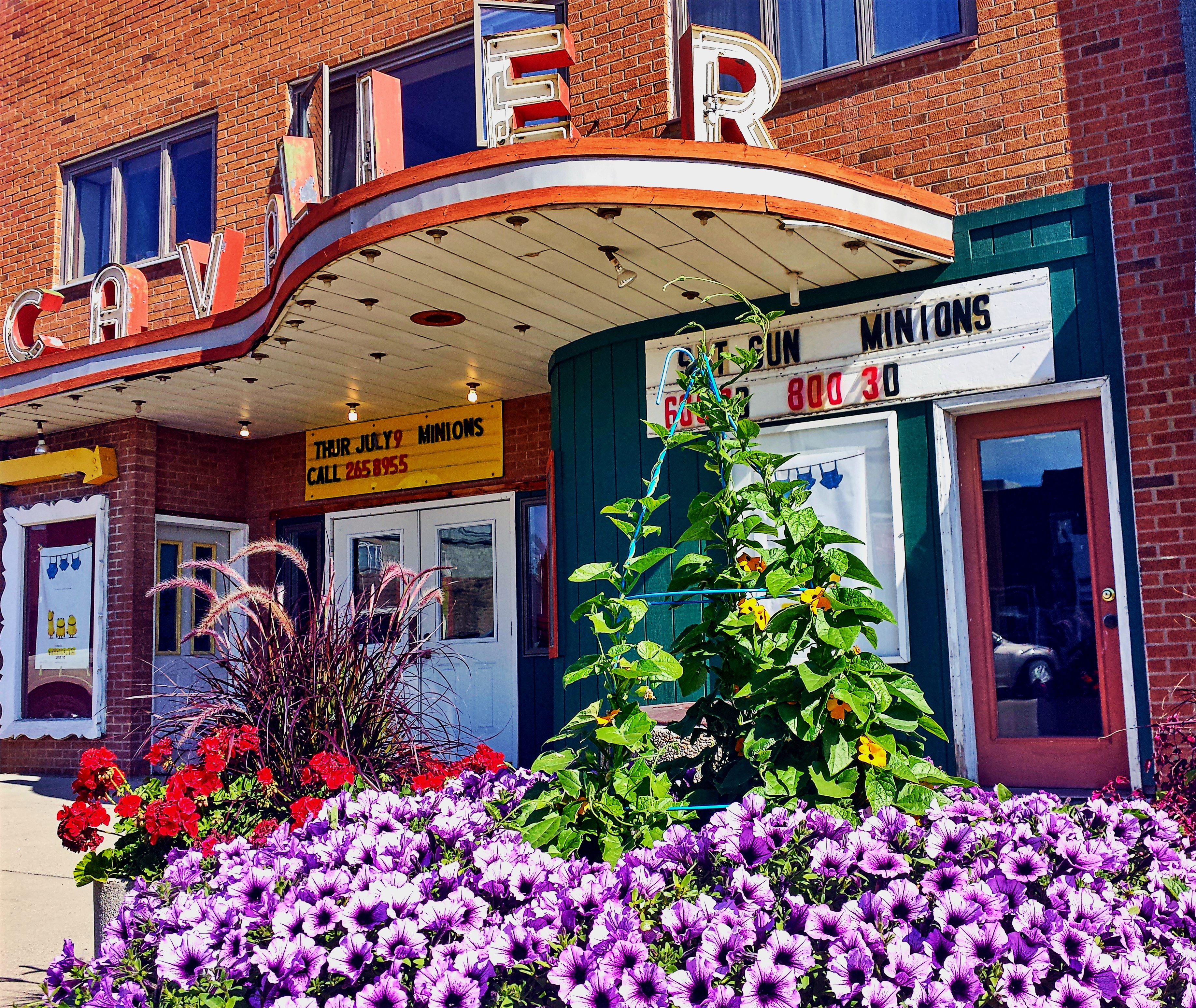 Open since 1949